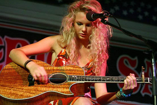 The American country singer/guitarist Taylor Swift, with her Taylor acoustic guitar made of Acacia koa wood, at the Maverick Saloon & Grill in Santa Maria, California, June 16, 2006 by Dwight McCann /